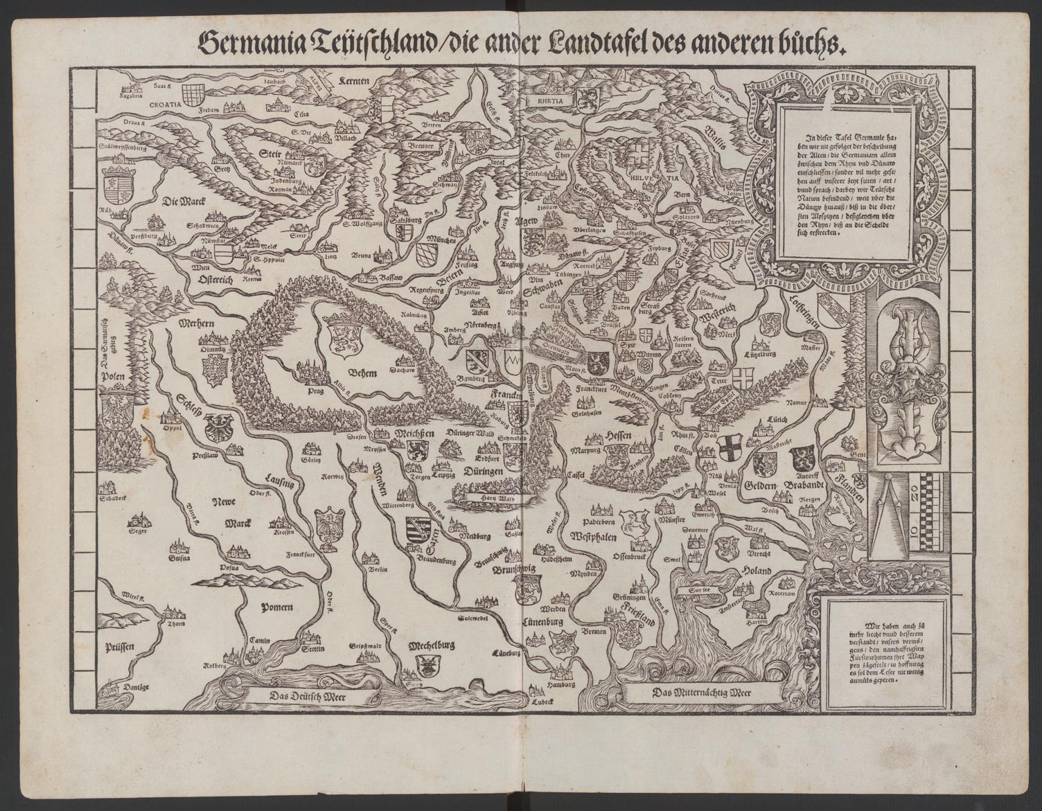 Germania Teütschland, map of "the German Nation" in the book Gemeiner loblicher Eydgnoschafft Stetten... published in 1548 by Johann Stumpf in Zürich.